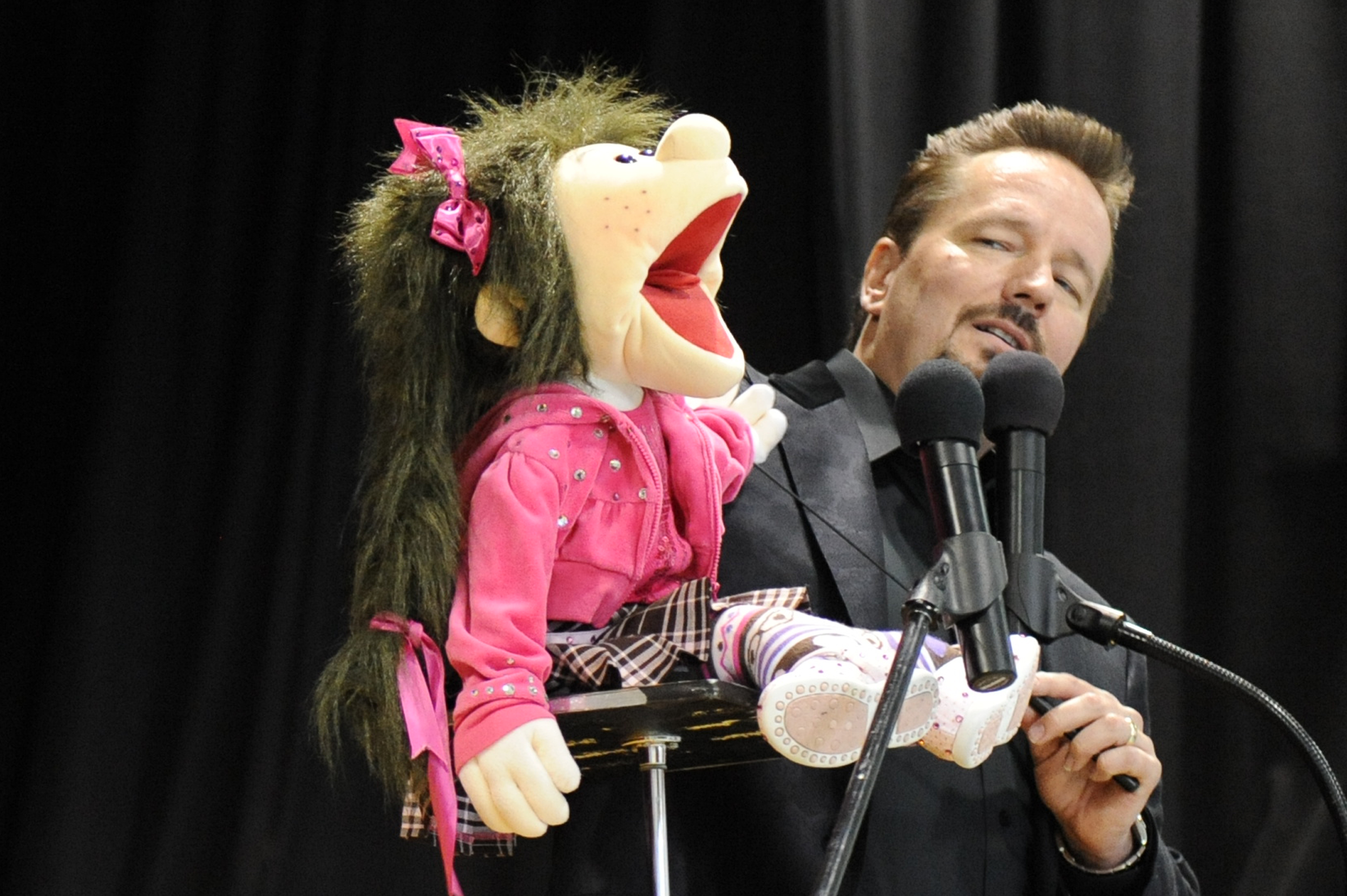 Mr. Terry Fator, celebrity ventriloquist, visited Lomie Gray Heard Elementary School to educate students about his career as an entertainer during the first-ever “Career Event” held at the school May 18. Mr. Fator entertained students with bits from this Las Vegas show, which he performs nightly in the local area. The purpose of the “Career Event” is to expose students to a variety of career fields in effort to encourage and motivate them to continue their education and pursue a profession they are passionate about.